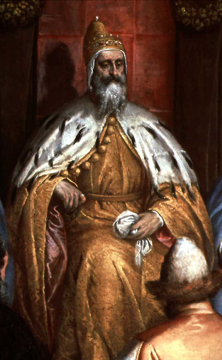 Marino Grimani (1532-1605)